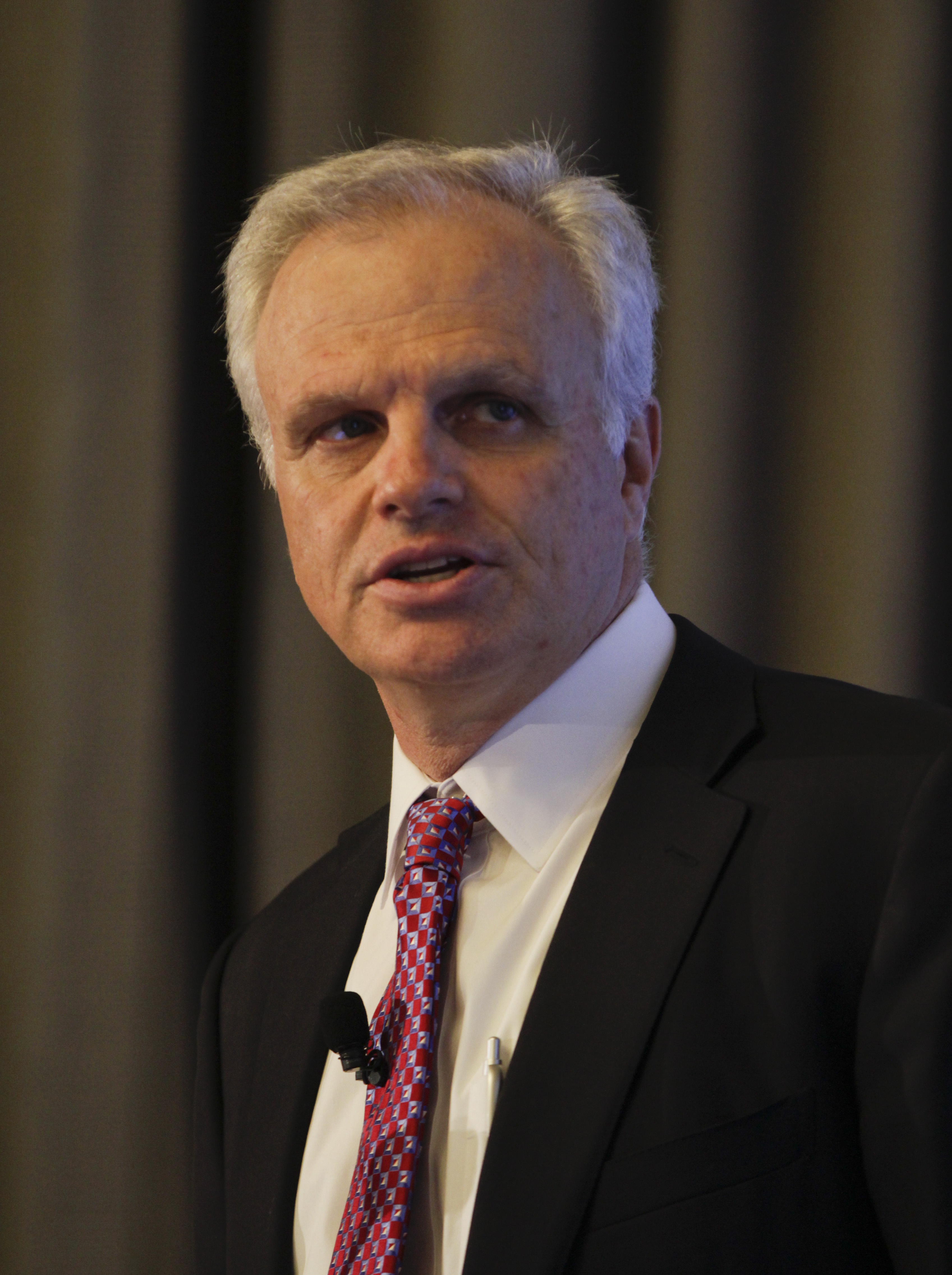 David G. Neeleman, founder and owner of Jetblue Airways and Azul Linhas Aéreas